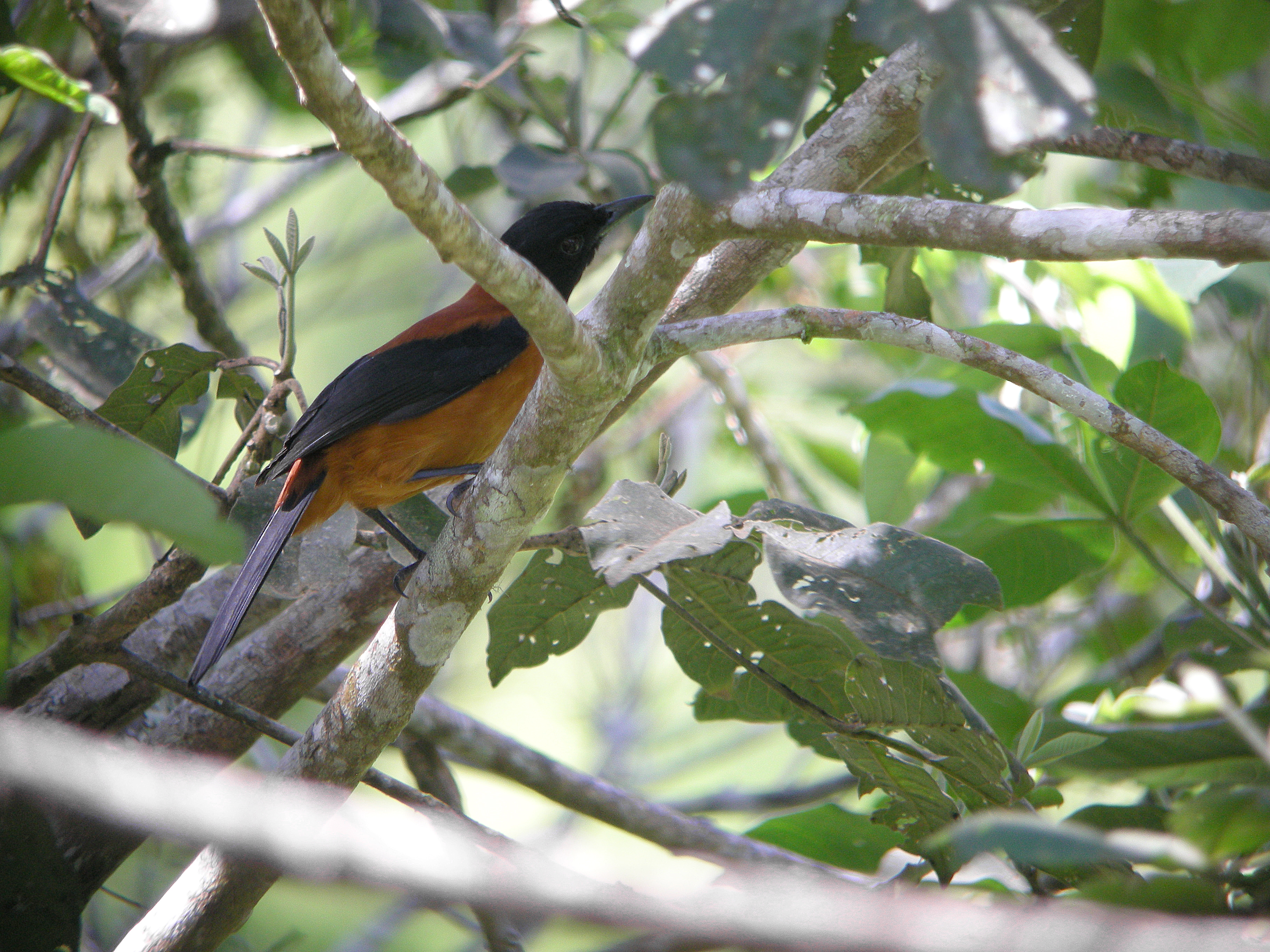 Hooded Pitohui, Pitohui dichrous